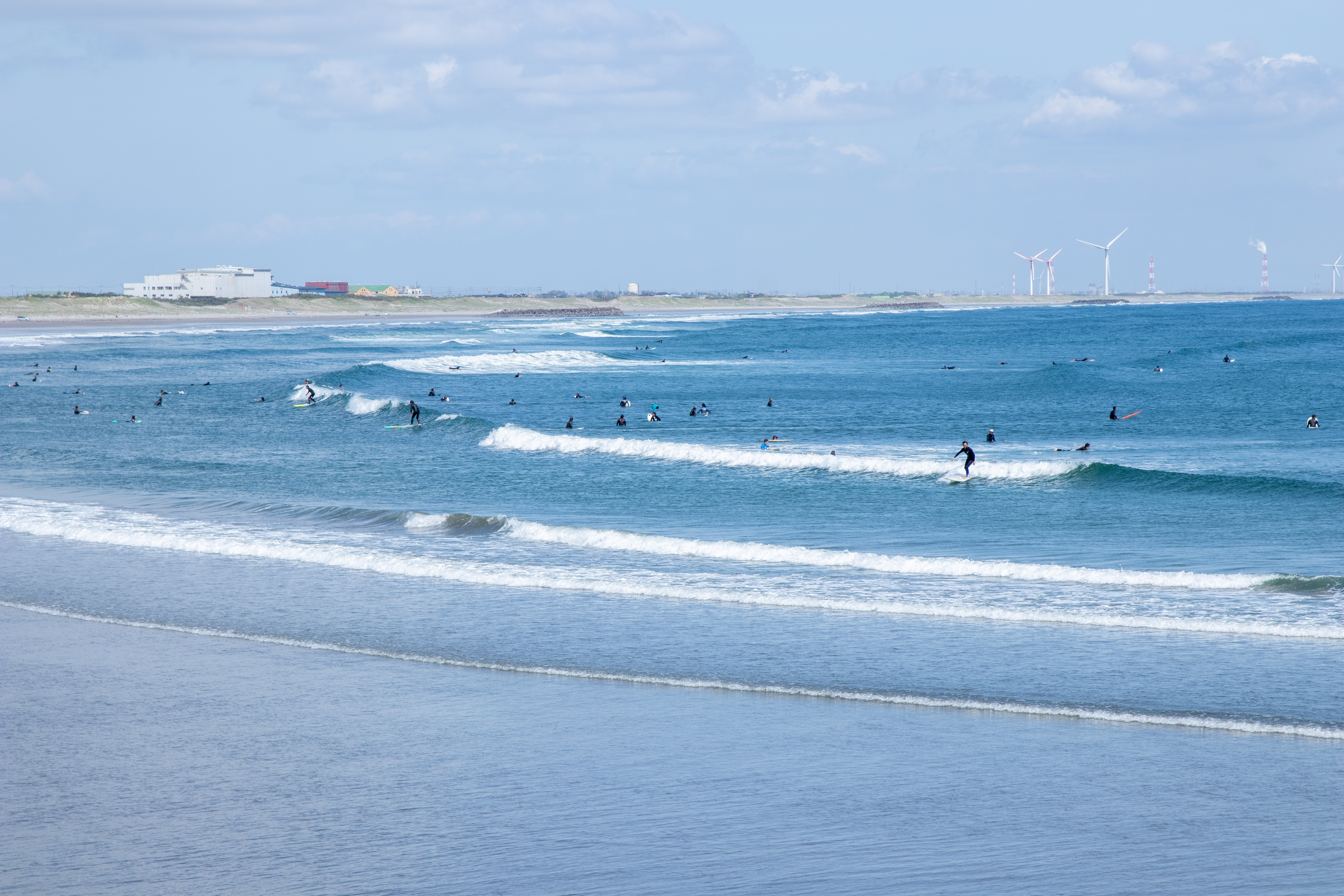 Hasaki Beach, Kamishu City, Ibaraki, Japan